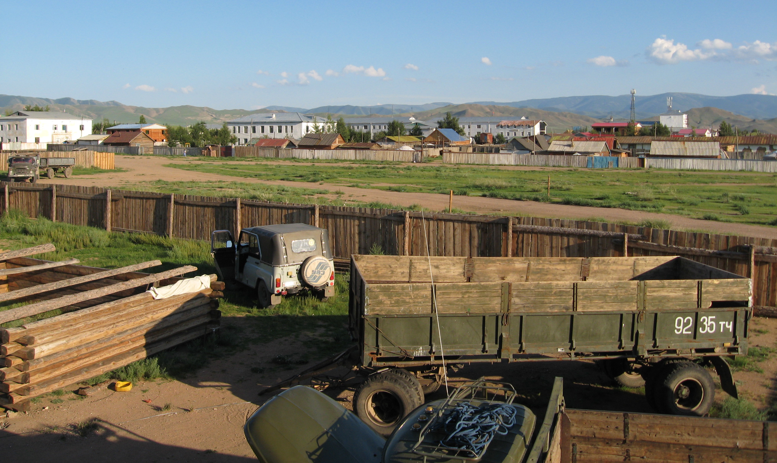 A view from inside a parcel of land in Mörön, Hövsgöl, Mongolia